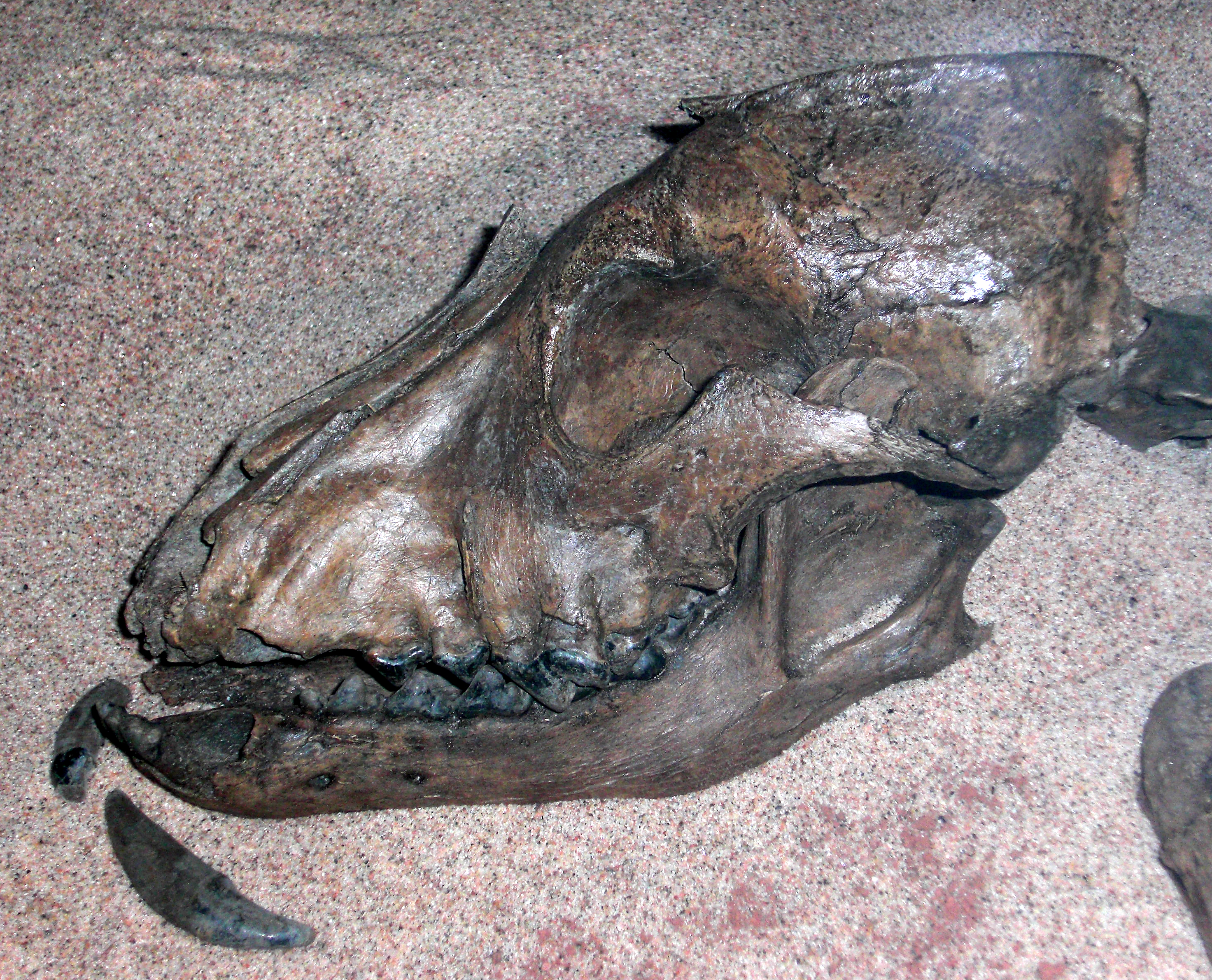 The skull of a mesolithic dog skeleton (Canis lupus familiaris) from Almeö at the lake Hornborgasjön, Bjurum parish, Gudhem hundred, Falköping municipality, former Skaraborg county, Västergötland, Sweden. The skeleton was found in the autumn 1983 during an archaeological excavation. The skeleton is 9,300 years old. Since 1994 the skeleton is shown in the prehistoric exhibition at Falbygdens museum in Falköping.